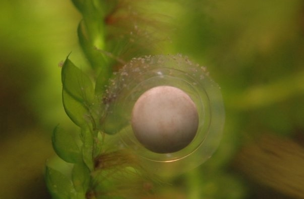 Neurergus kaiseri egg just being released. Picture taken in captivity, in France.